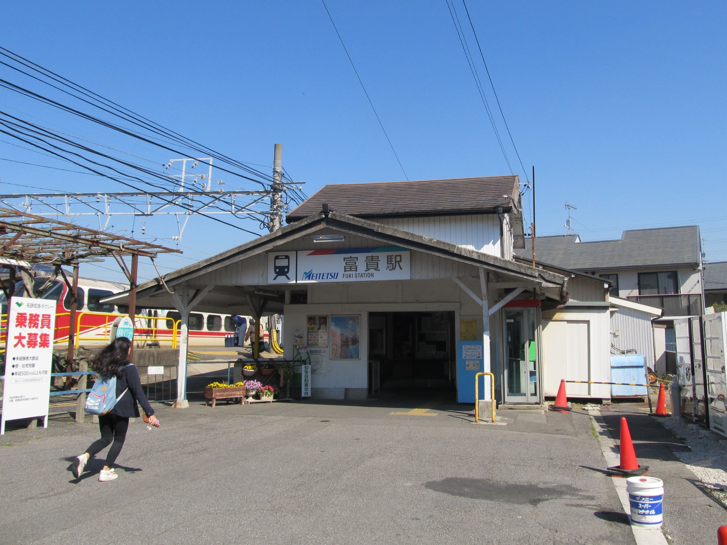 Nagoya Railroad Kōwa Line and Chita New Line Fuki Station Building.